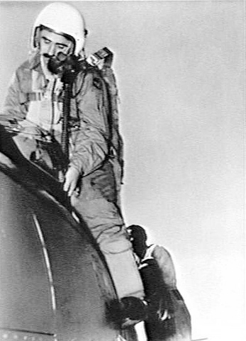 Williamtown, NSW. The Commanding Officer No 2 (F) Operational Training Unit RAAF, Wing Commander R C Cresswell DFC, leaving the cockpit of the first CAC Avon Sabre to arrive at RAAF Base Williamtown after the flight from Laverton Vic. (Donor: R.C. Cresswell)